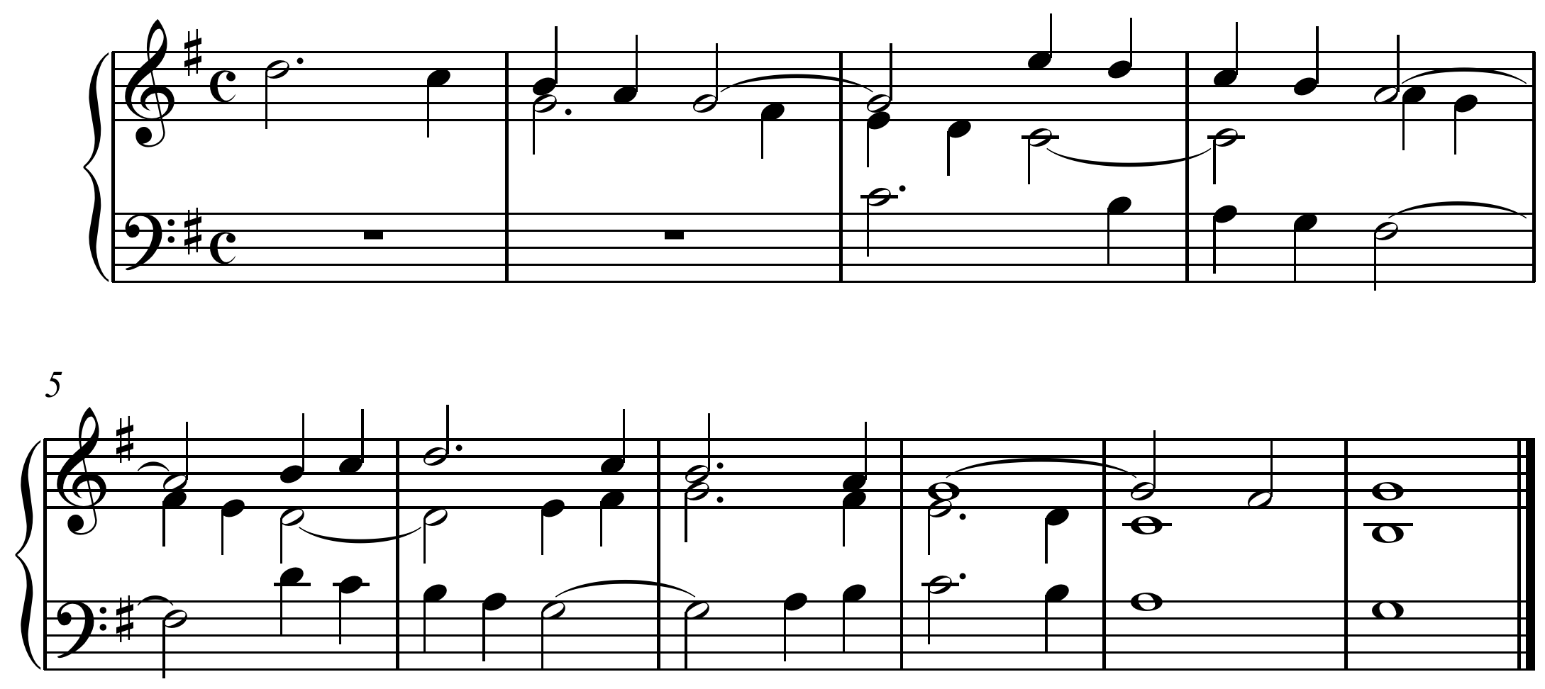 Three voice canon, each voice starting a measure later and a fifth lower.